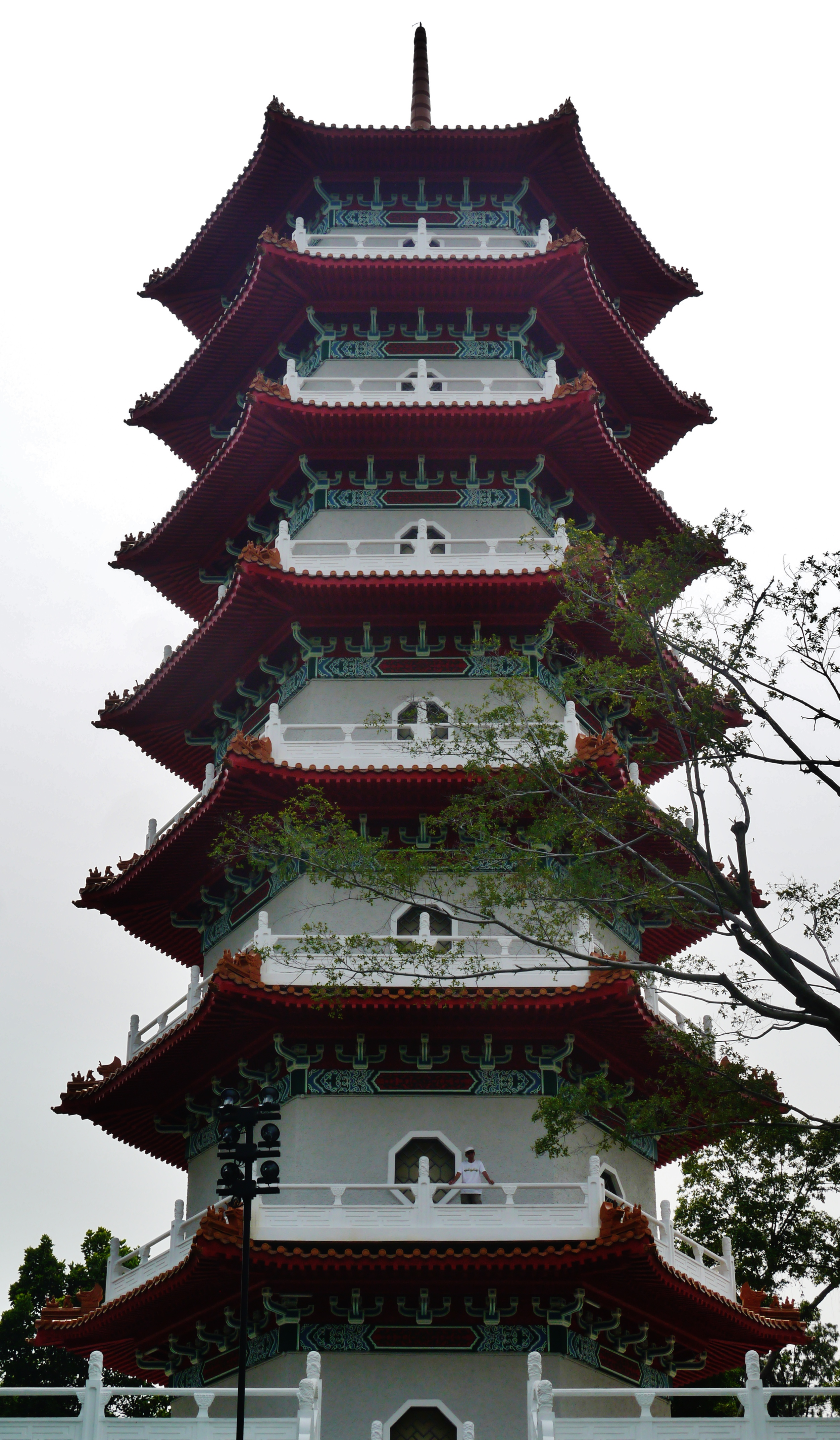 Pagoda at the Chinese Garden, Singapore